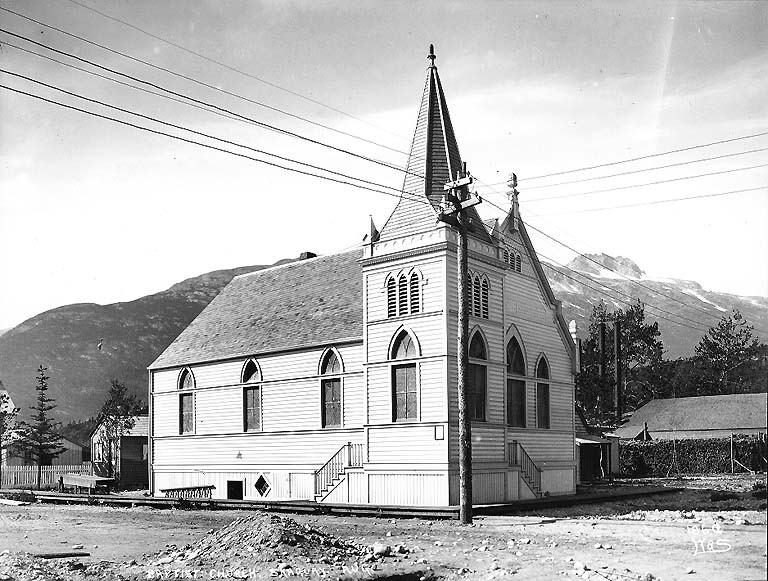 Caption on image: "Baptist Church, Skaguay. Aug." Original image in Hegg Album 7, page 45 . Original photograph by Eric A. Hegg B332; copied by Webster and Stevens 186.A. Subjects (LCTGM): Churches--Alaska--Skagway